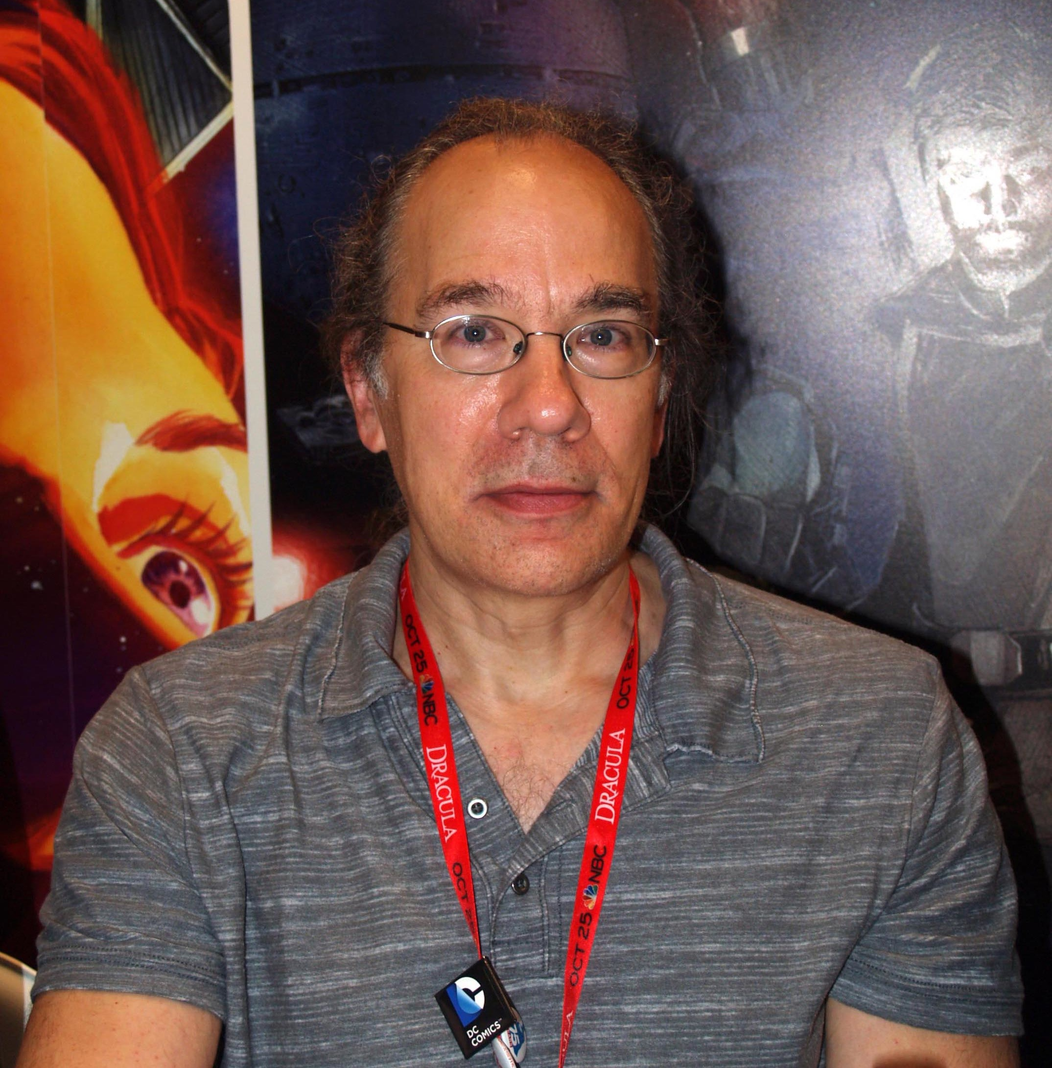 Comics illustrator Tom Mandrake at the Dark Horse Comics on Friday October 11, 2013 at the Jacob K. Javits Convention Center in Manhattan, Day 2 of the 2013 New York Comic Con. This photo was created by Luigi Novi. It is not in the public domain, and use of this file outside of the licensing terms is a copyright violation.